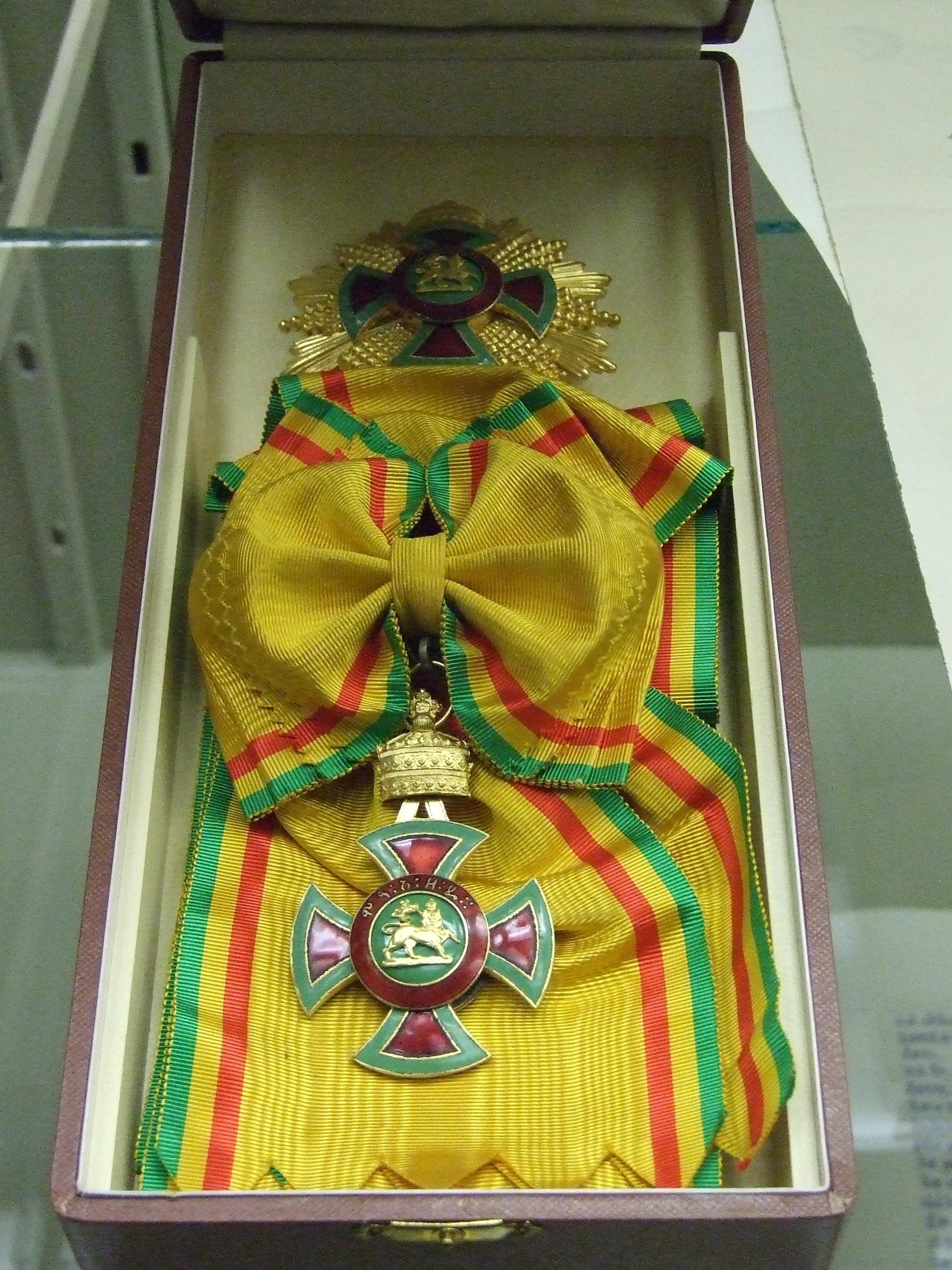 The Republic exhibition, National Museum in Prague